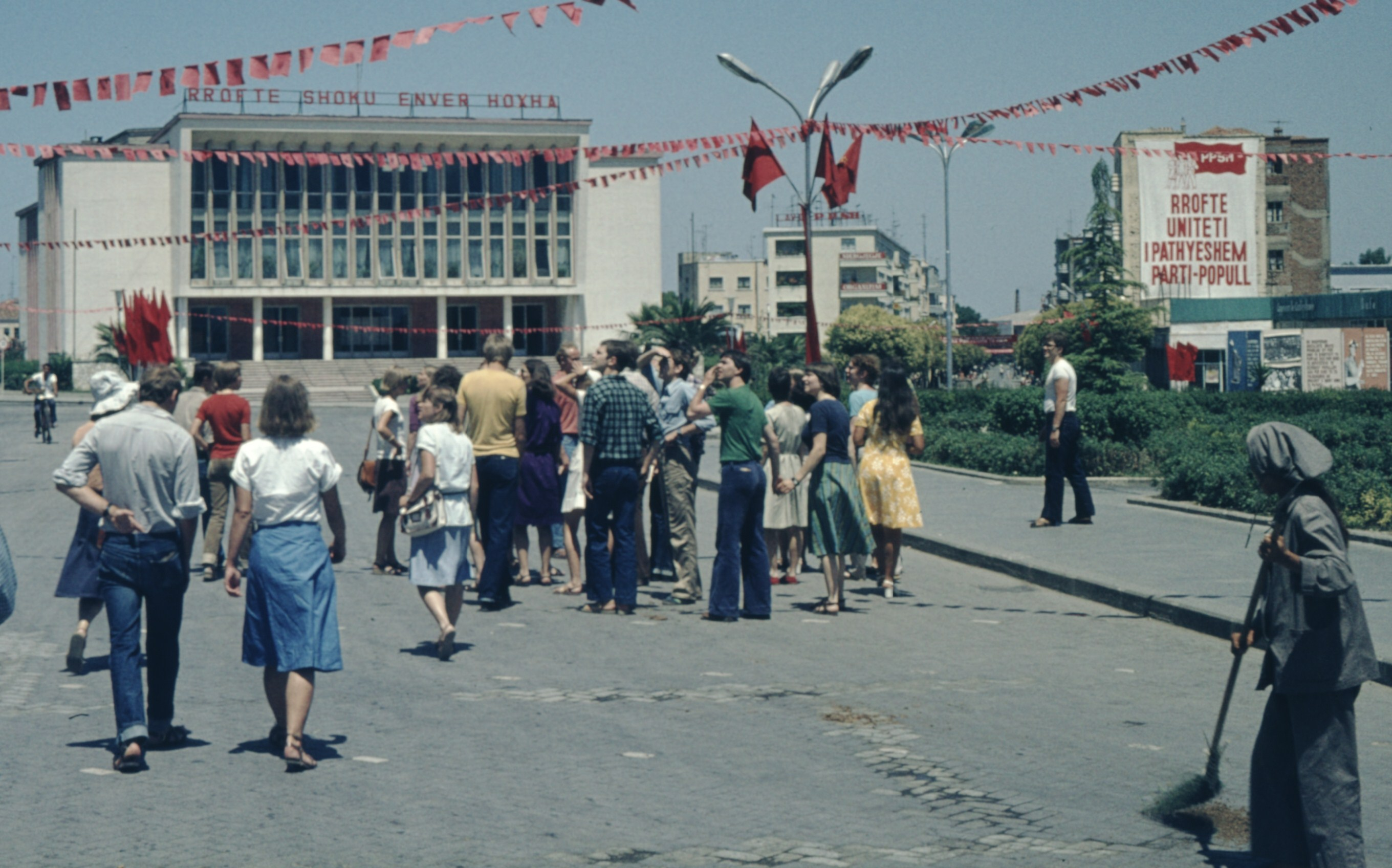 Street scene in Durrës with propaganda posters